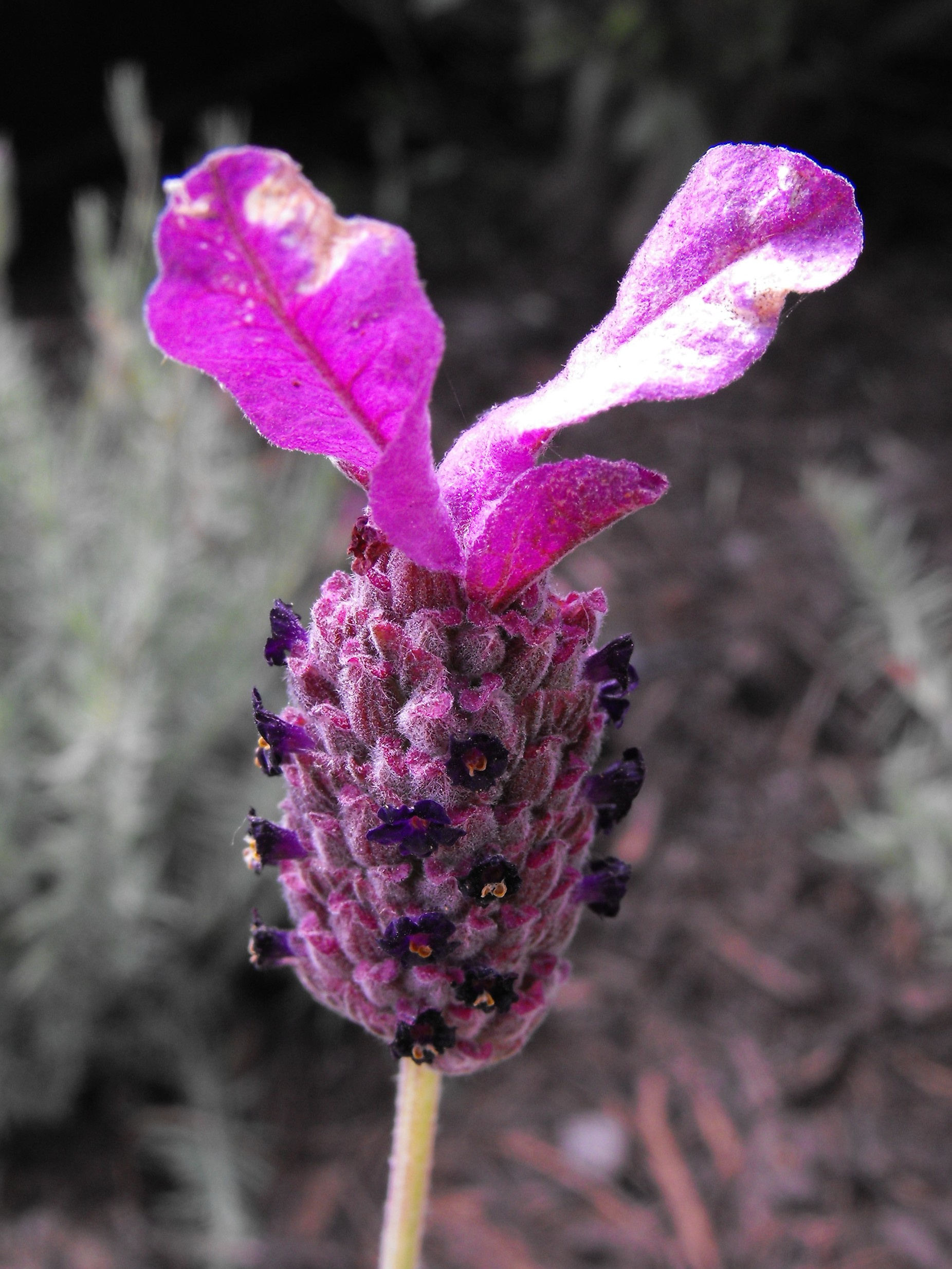 Lavandula stoechas in the Water Conservation Garden at Cuyamaca College in El Cajon, California, USA. Identified by sign.